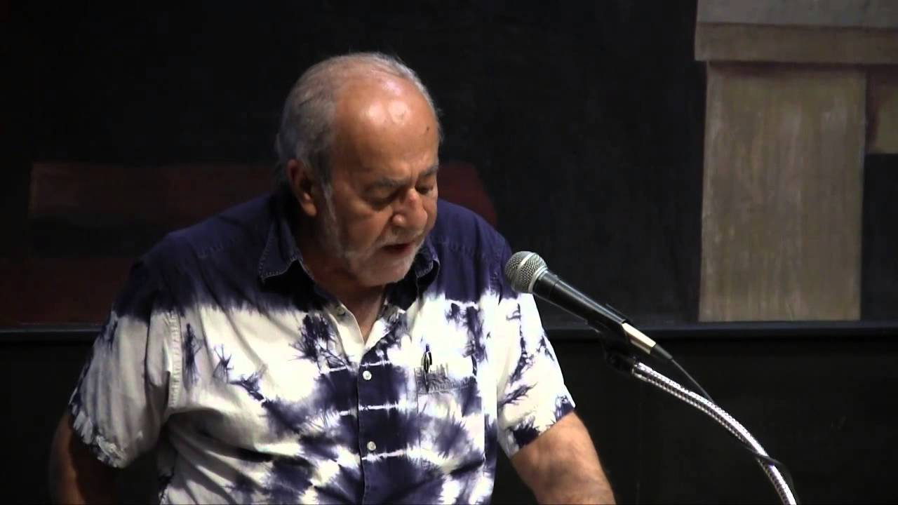 Arif Dirlik speaking at the New School in New York City in September 2014 organized by the India China Institue, giving an address entitled 'Crisis and Criticism: The Predicament of Global Modernity'.